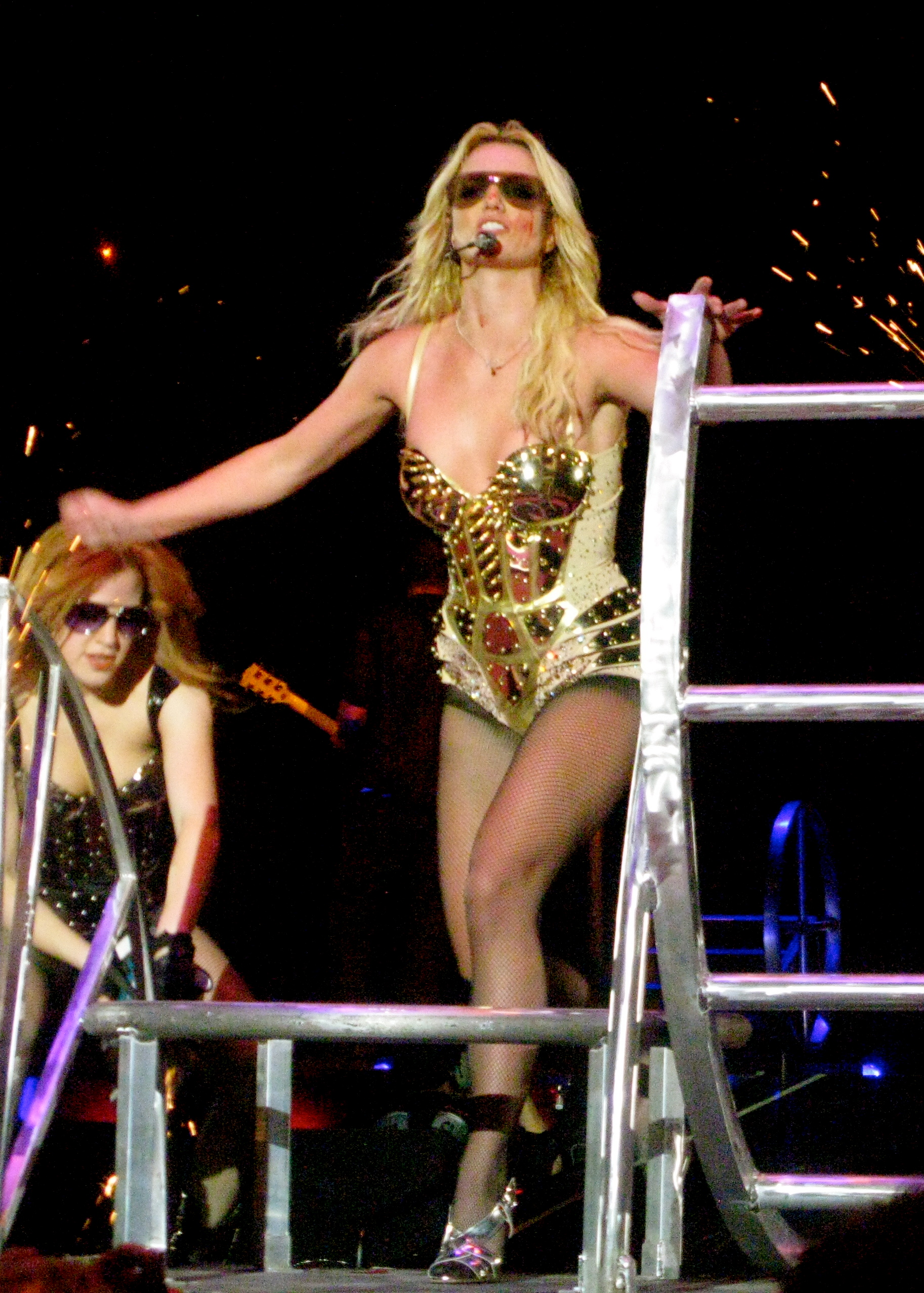 Britney Spears Performing Do Somethin In the Circus Starring: Britney Spears in 2009